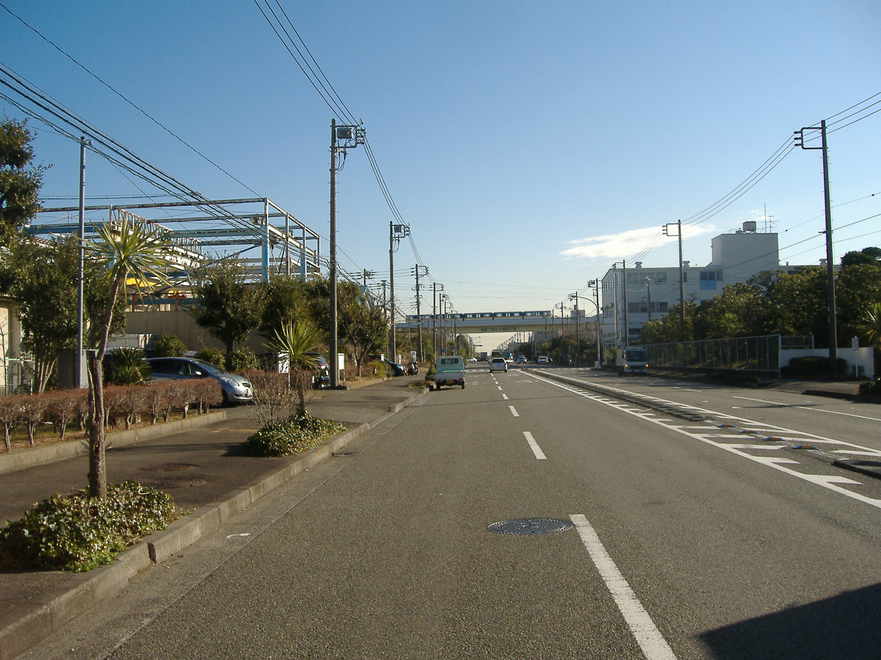 Fukuura street(Yokohama, Japan)